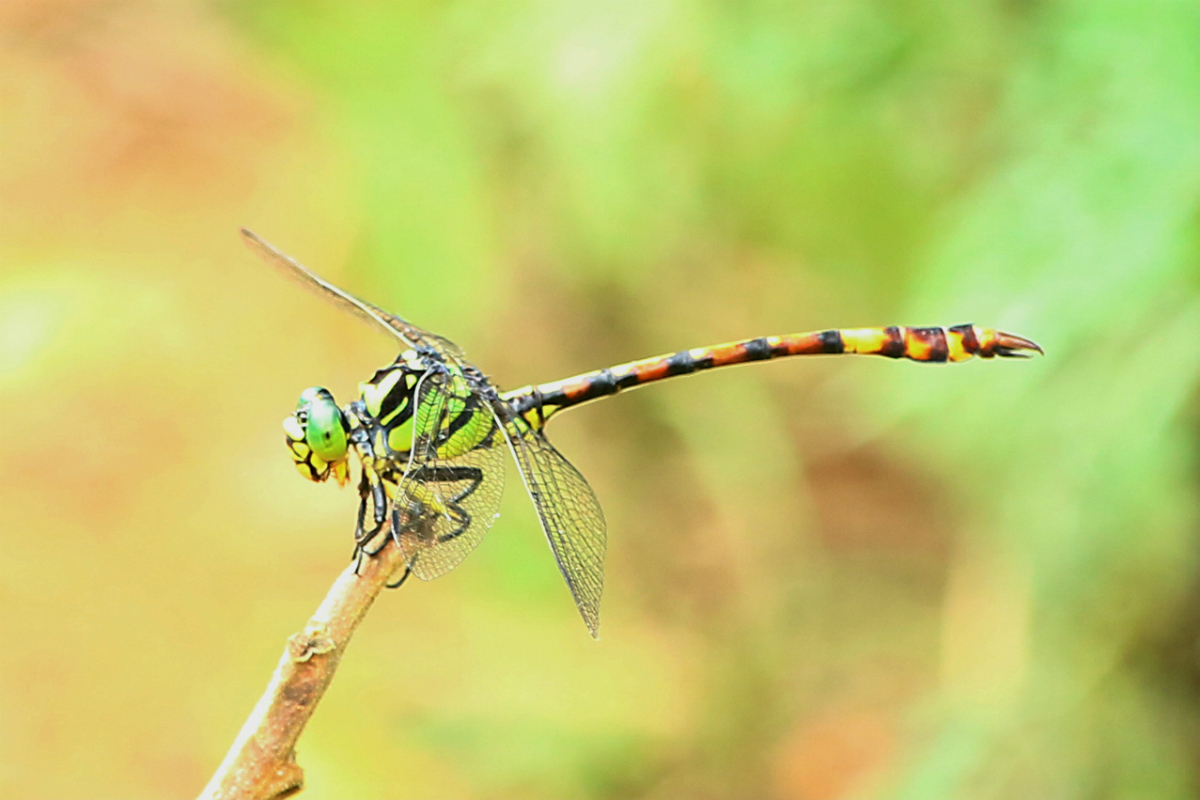 Megalogomphus superbus from Coimbatore, Tamil Nadu, India